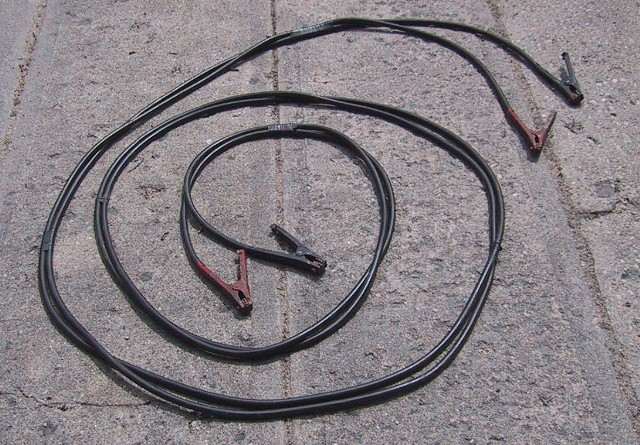 A 24 foot (7 metre) pair of heavy-duty jumper cables with crocodile clips. I made this picture all by myself!